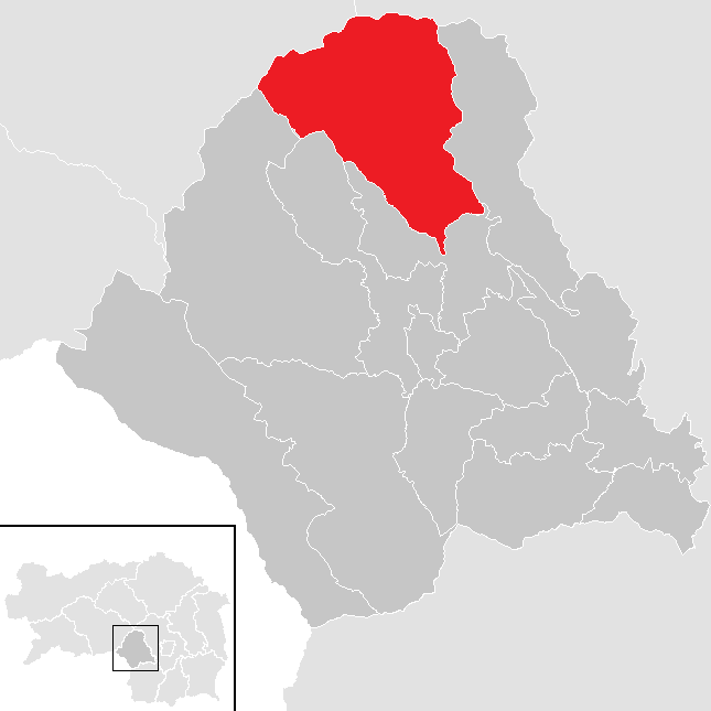 district Voitsberg